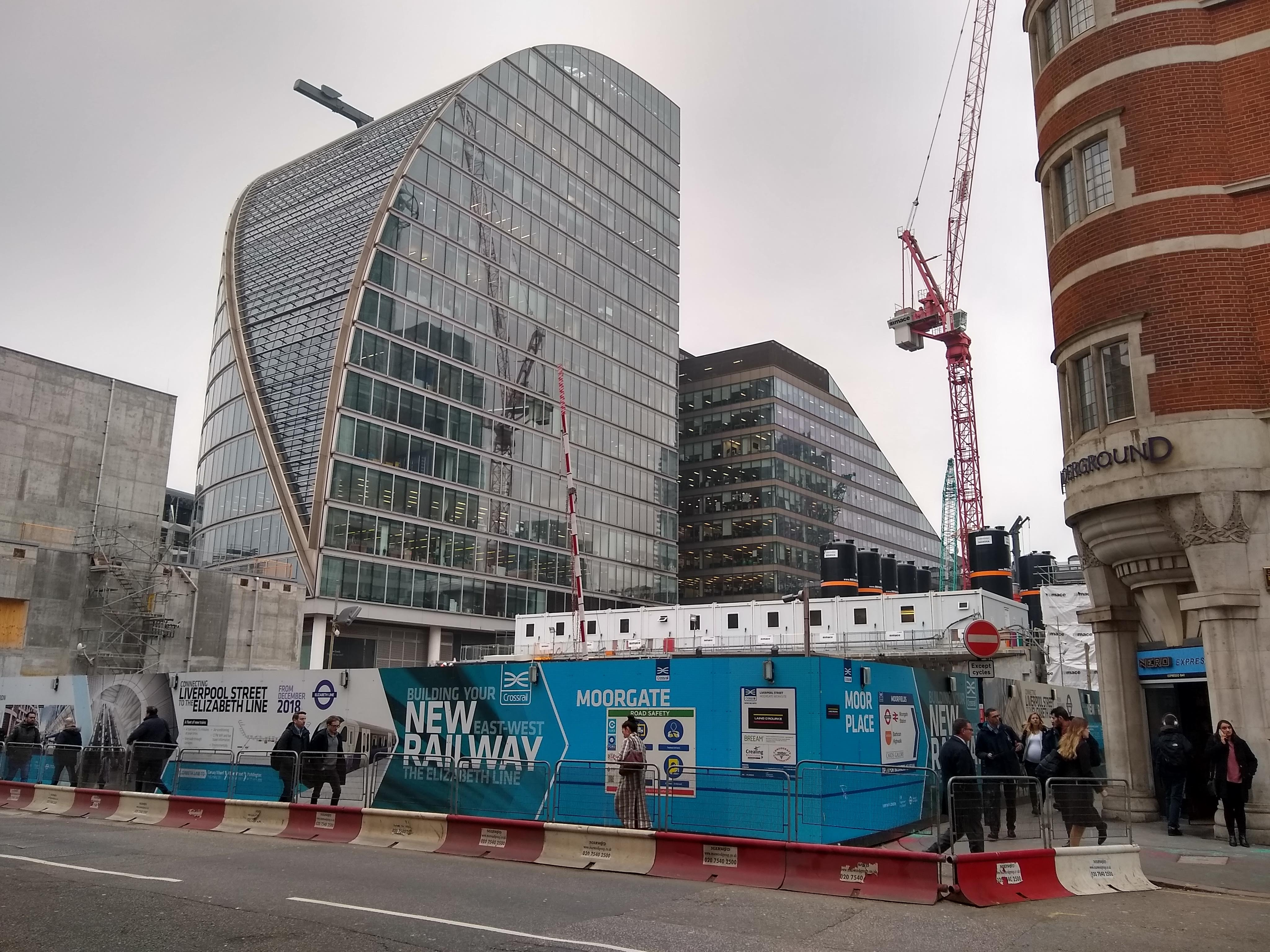 Elizabeth Line construction at Moorgate